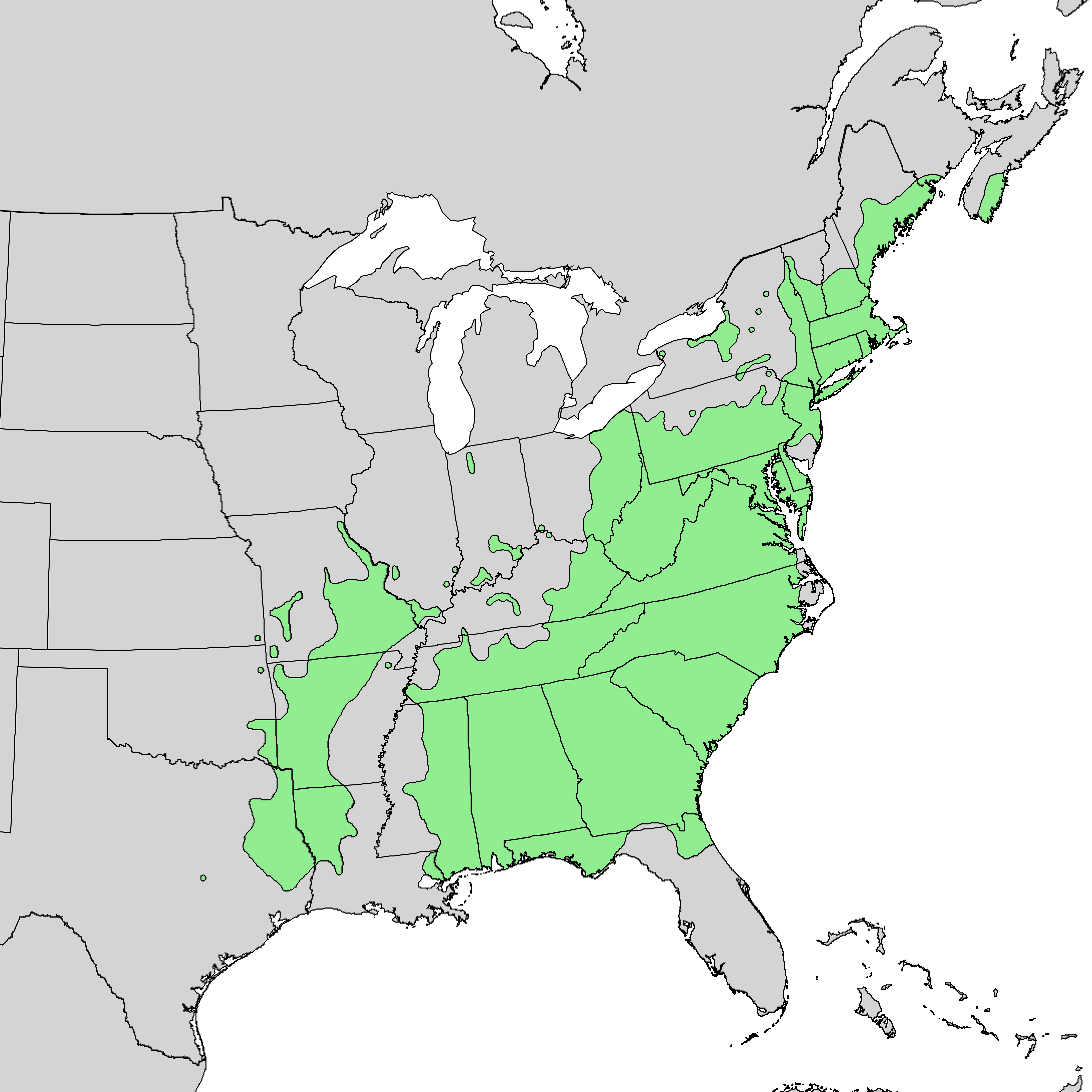 Natural distribution map for Alnus serrulata